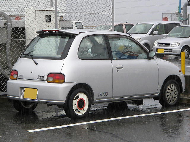 Daihatsu "Opti" parco (1st generation) 1995/2-?